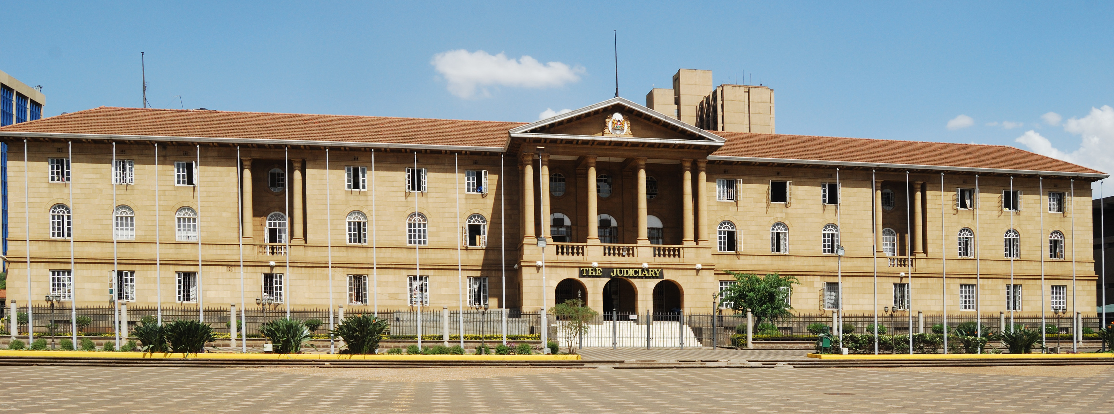 Kenya Judicary building